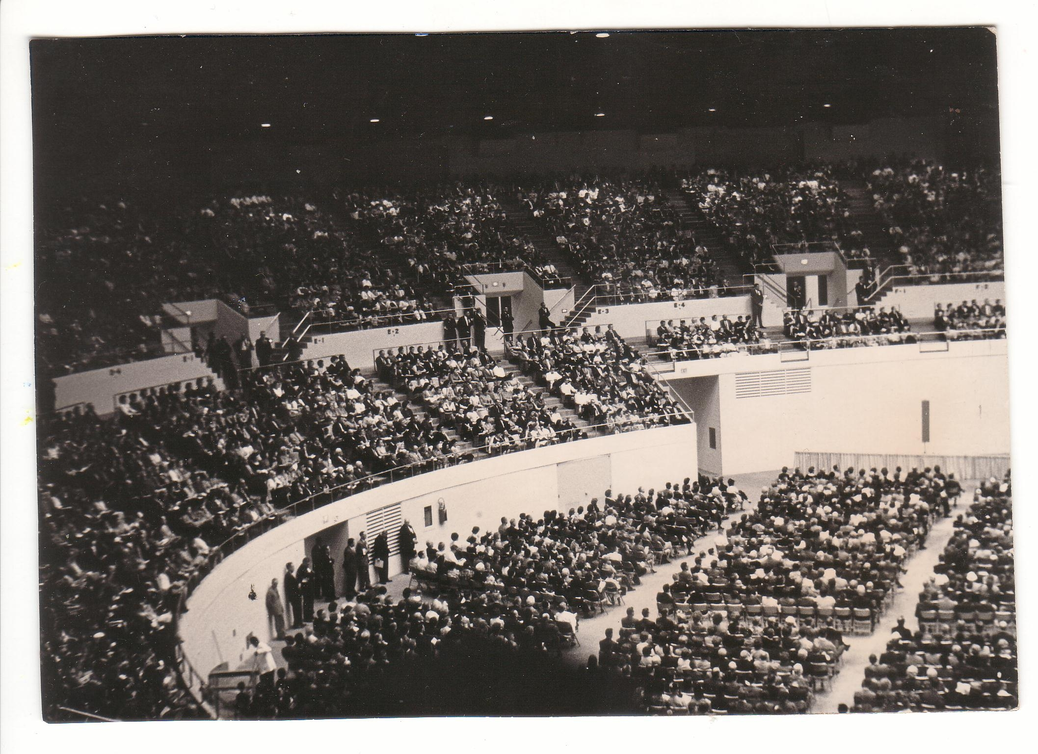 City-wide Church of Christ gospel meeting was the first-ever event in the Nashville Municipal Auditorium.